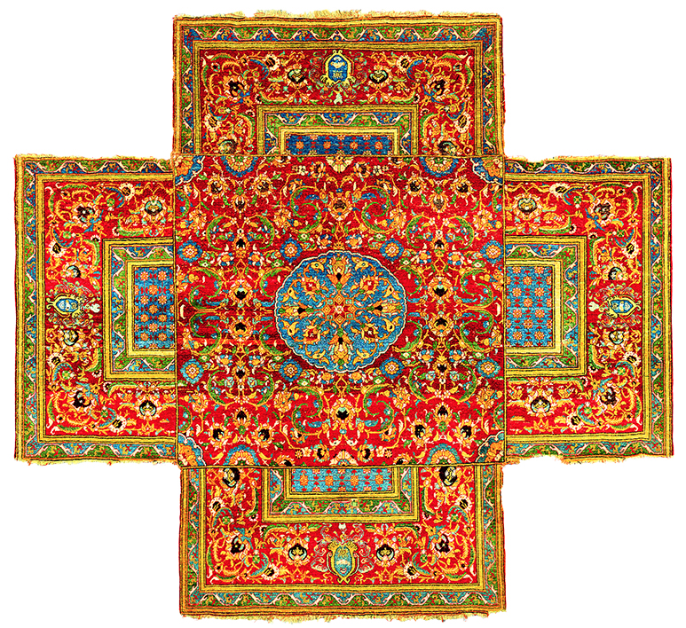 Cairene Ottoman cruciform table carpet, Egypt, mid 16th century. Asymmetrically knotted wool pile on a wool foundation, 2.52 x 2.30 m (8′ 3″ x 7’7″). Museo Civico, San Gimignano. San Gimignano is a small Tuscan town whose name immediately calls to mind the famous cruciform table carpet made in Egypt around the middle of the 16th century. Published many times, this carpet, in the form of the Greek cross, bears the coat-of-arms of the person who commissioned it, but he remains unidentified. The history of the carpet, including the date of its arrival in San Gimignano, is a mystery; but the ties between San Gimignano and eastern carpets have a tradition that goes back many centuries.